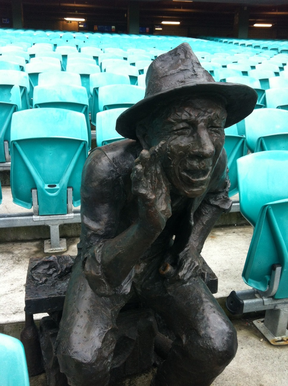 Bronze statue of Stephen Harold Gascoigne, better known as "Yabba", in the Victor Trumper Stand at the Sydney Cricket Ground, Sydney Australia. View from the front.